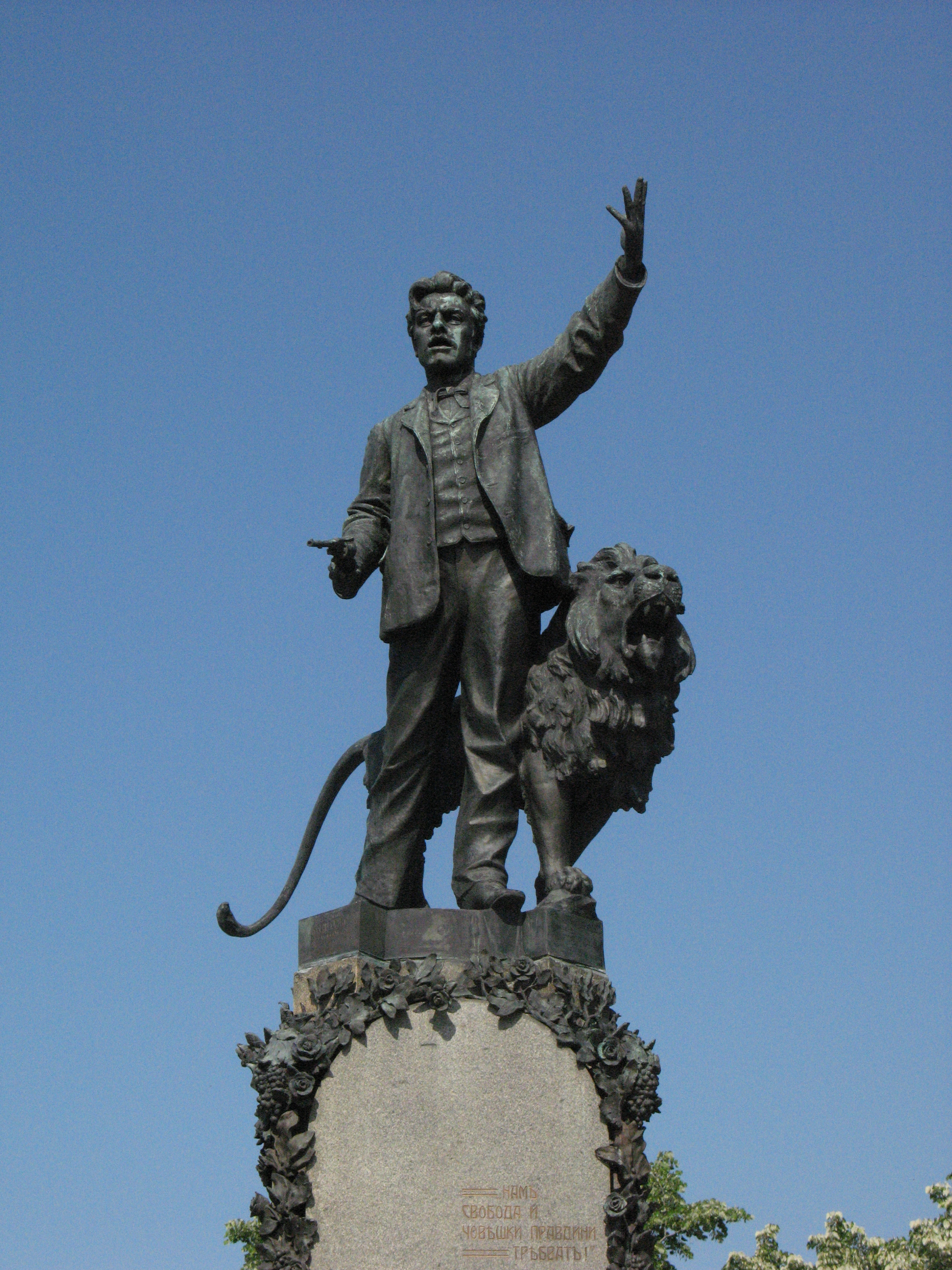 Monument of Vasil Levski (1837–73), built by Marin Vasilev (1867–1931)[1] and erected in 1907[2]